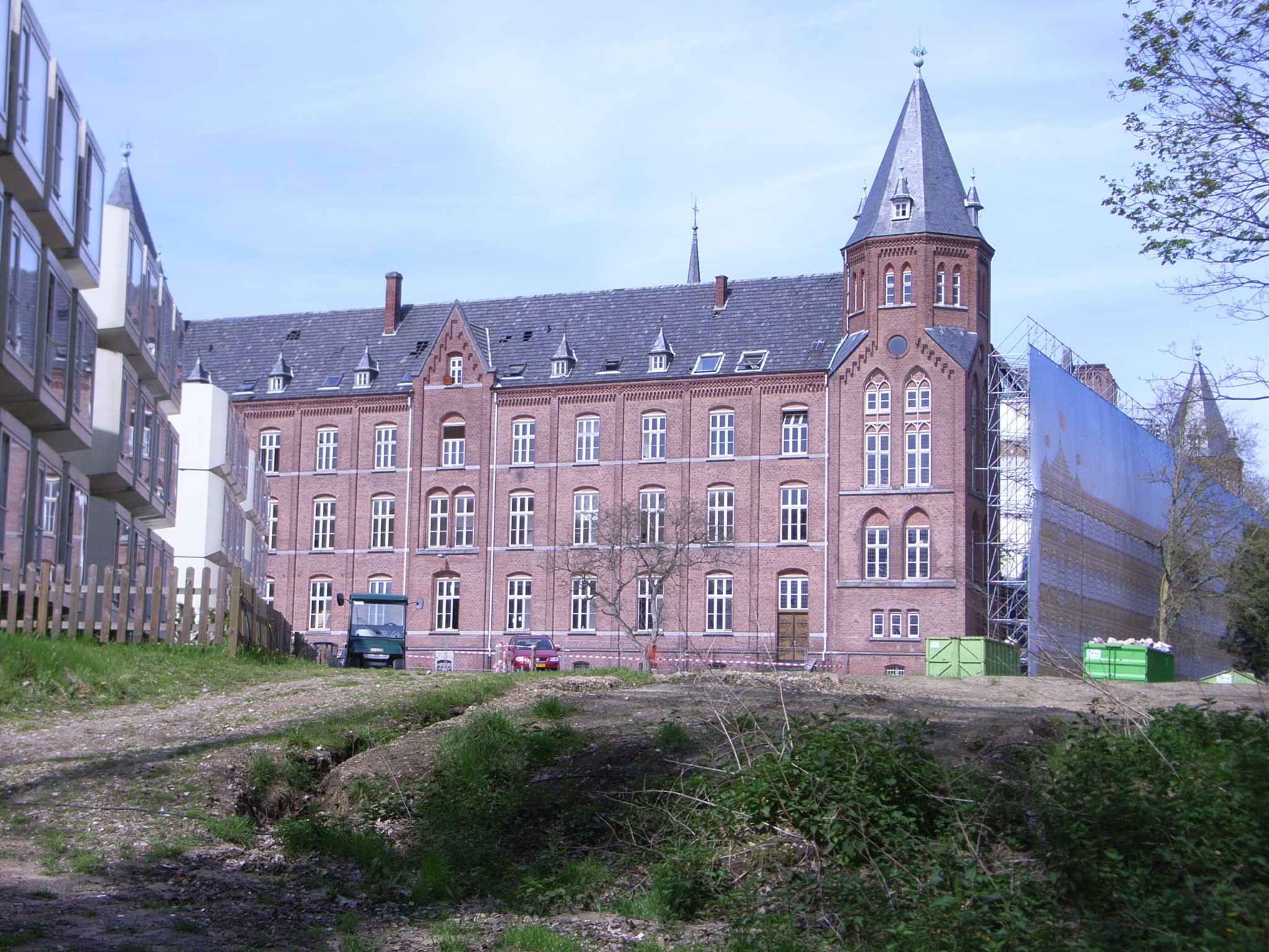 ruined Building of Kolleg St. Ludwig (Maharishi Vedic University), Vlodrop, NL, South-East